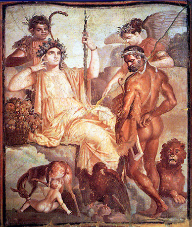 Hercules and Telephos. Roman fresco in the Augusteum (so called Basilica) at Herculaneum. Museo Archeologico Nazionale (Naples) Nr. 9008